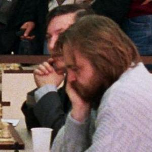 Anatoly Karpov and Artur Yusupov, Chess Olympiad 1988 in Thessaloniki, Photographer Gerhard Hund.